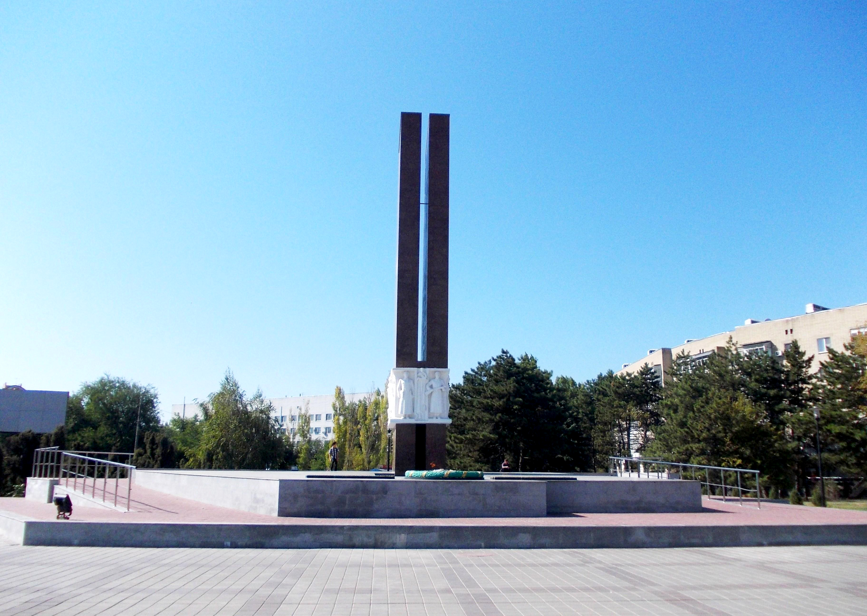 Азов. Мемориал «Павшим за Родину»